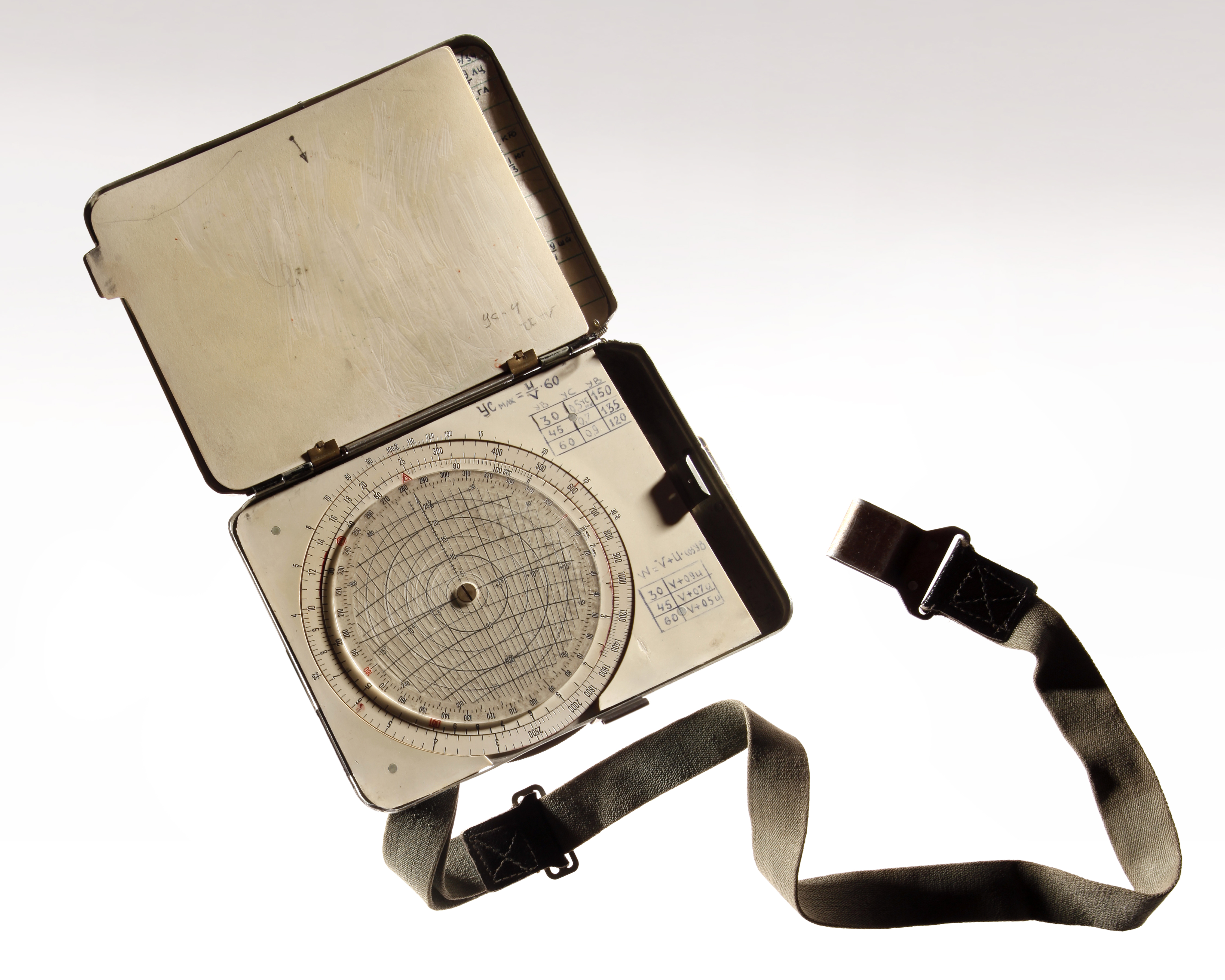 Soviet Lt. Viktor I. Belenko carried two personal items – this knee-pad notebook with flight data and a military identity document – on his dramatic flight to freedom in a MiG 25 Foxbat fighter from the USSR to Japan in 1976. For more information on CIA history and this artifact please visit